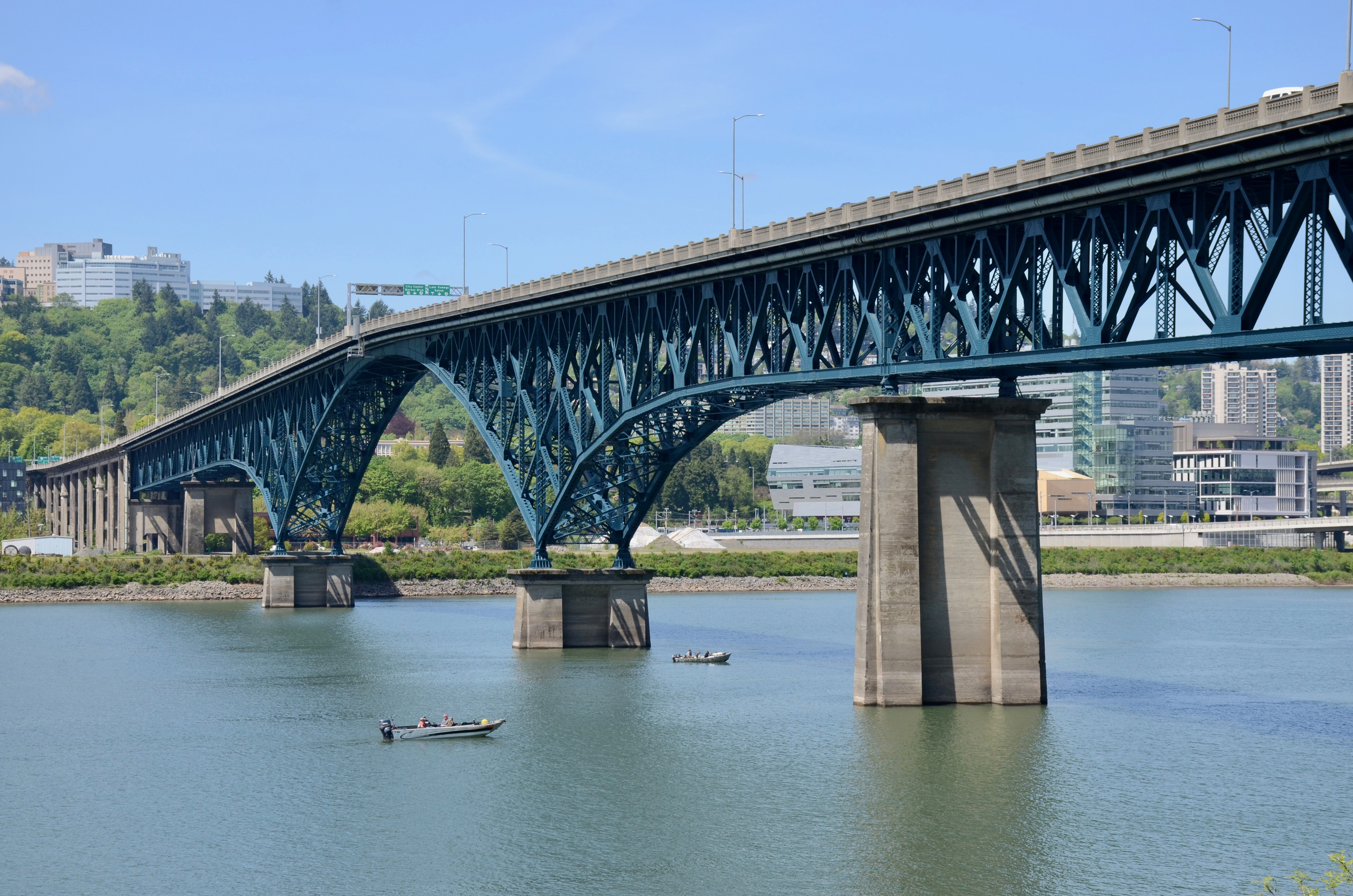 The Ross Island Bridge (in Portland, Oregon) from the southeast, from the Springwater Corridor Trail, in May 2019. This was shortly after the completion of a full repainting of the 1926-built bridge, the first since 1965, when it first received this blue color (replacing green). The blue had faded considerably by the time of the repainting project, which ran from 2014 to early 2019, including preparation work.